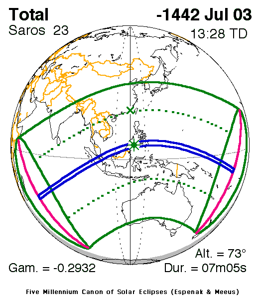 Eclipse Predictions by Fred Espenak, NASA/GSFC". Prediction for 03 July, 1443BC (-1442 in astronomical year)